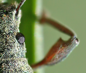 Phyllobius calcaratus femora tooth